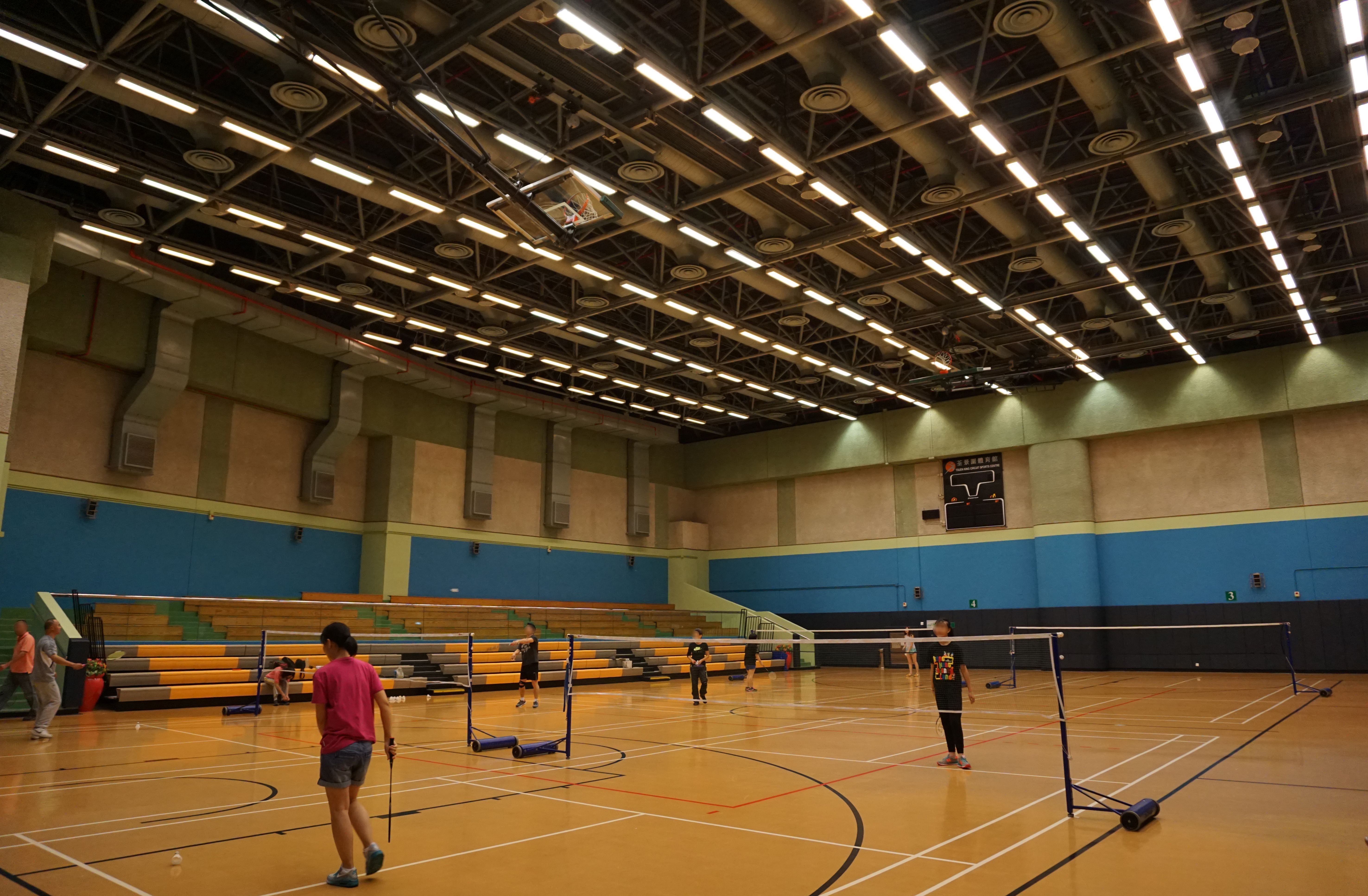 Tsuen King Circuit Sports Centre in Tsuen Wan, Hong Kong.